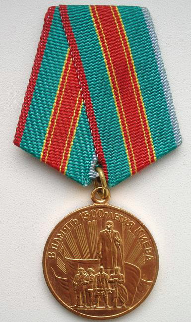 USSR medal "1500th Anniversary Of Kiev"